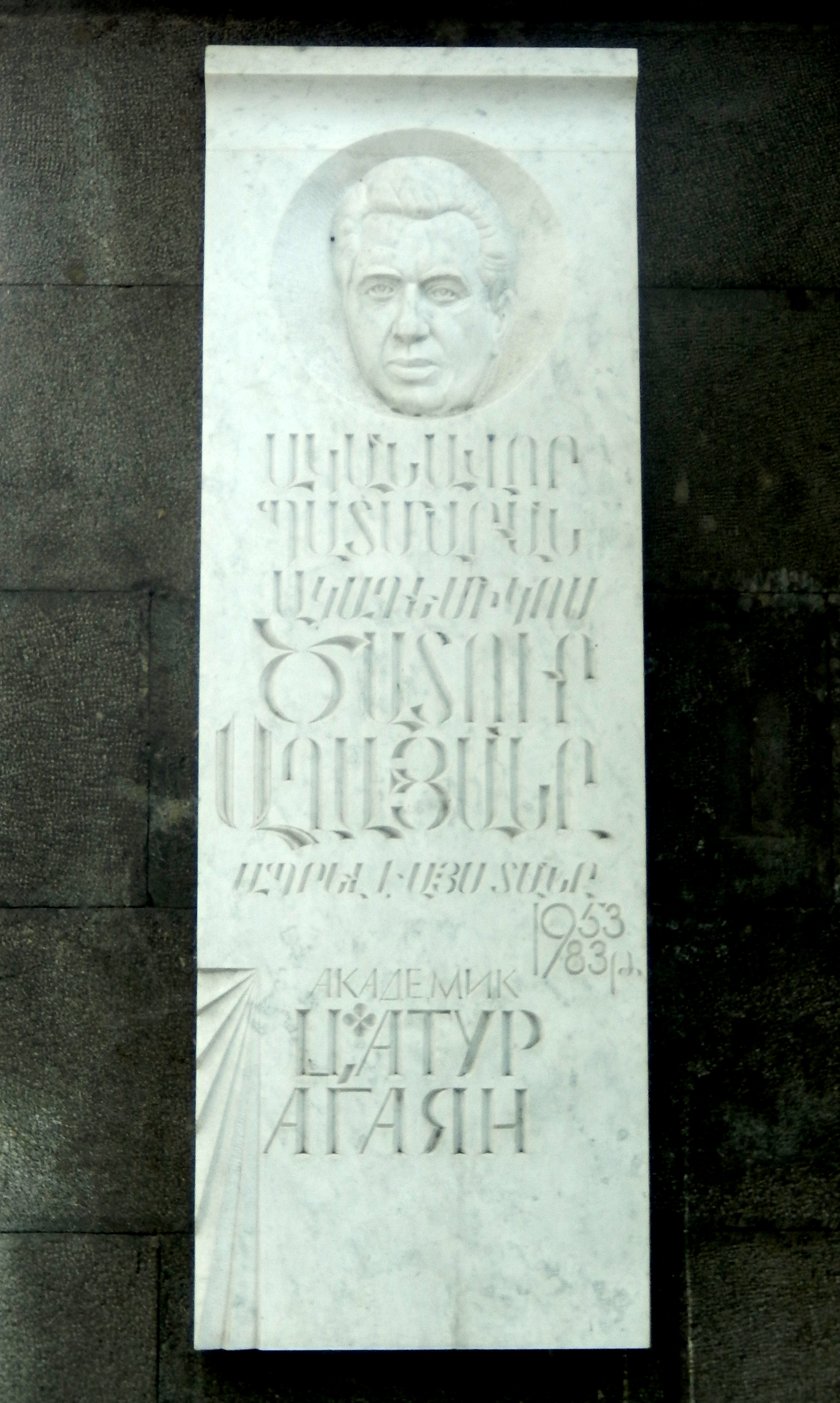 Ծատուր Աղայանի հուշատախտակը Երևանի Կորյունի փողոցում